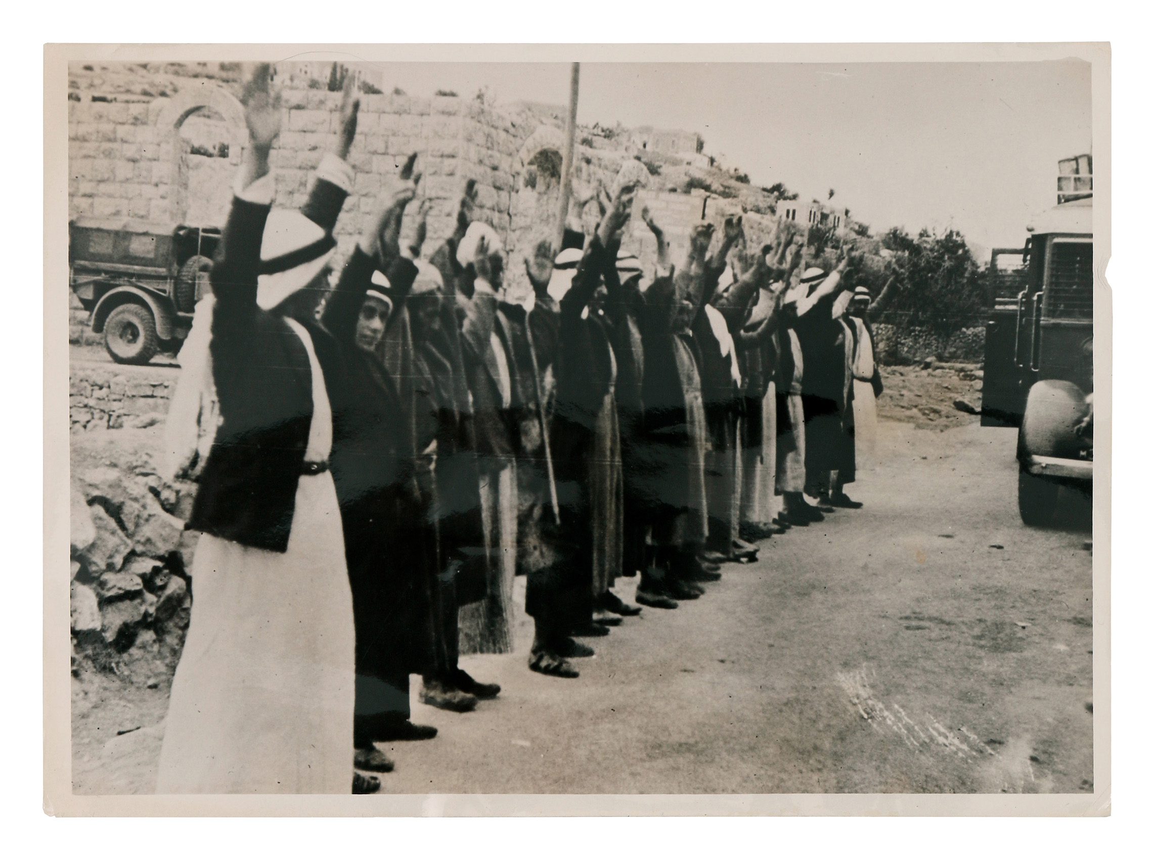 Press photograph from the Great Arab Revolt 1936-39. Photographs portraying Arabs arrested by the British Police having arms found in their possession, 5.4.1939. Titled and dated on the back (in French) on press information notes.